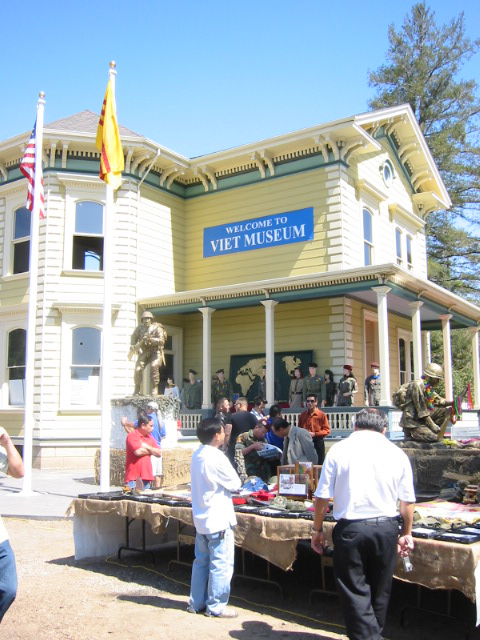 The Viet Museum. Taken in San Jose, California, United States, with a a Canon PowerShot S200 digital camera. The photo was taken on the museum's opening day, August 25, 2007.